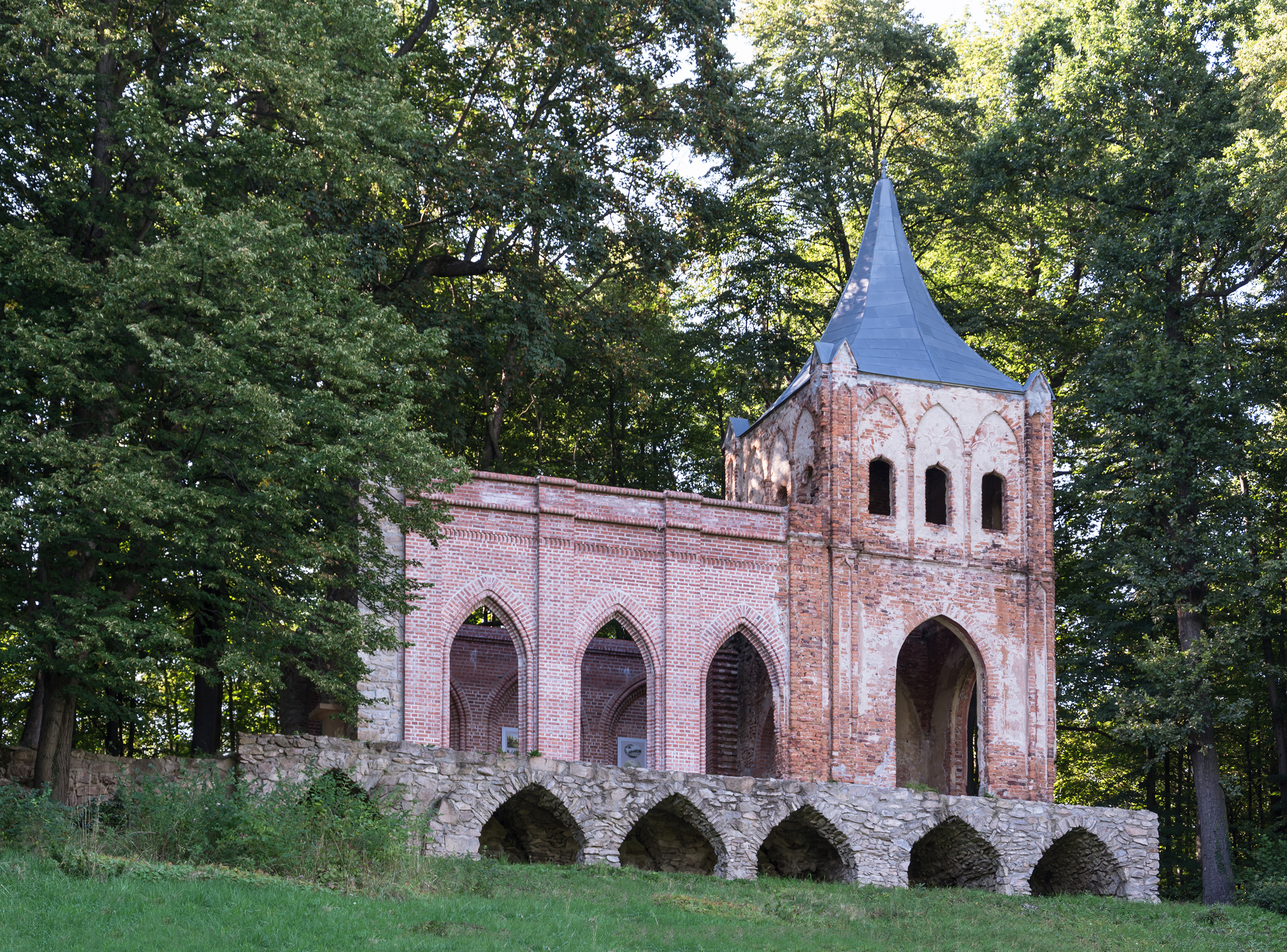 Mausoleum in Bukowiec